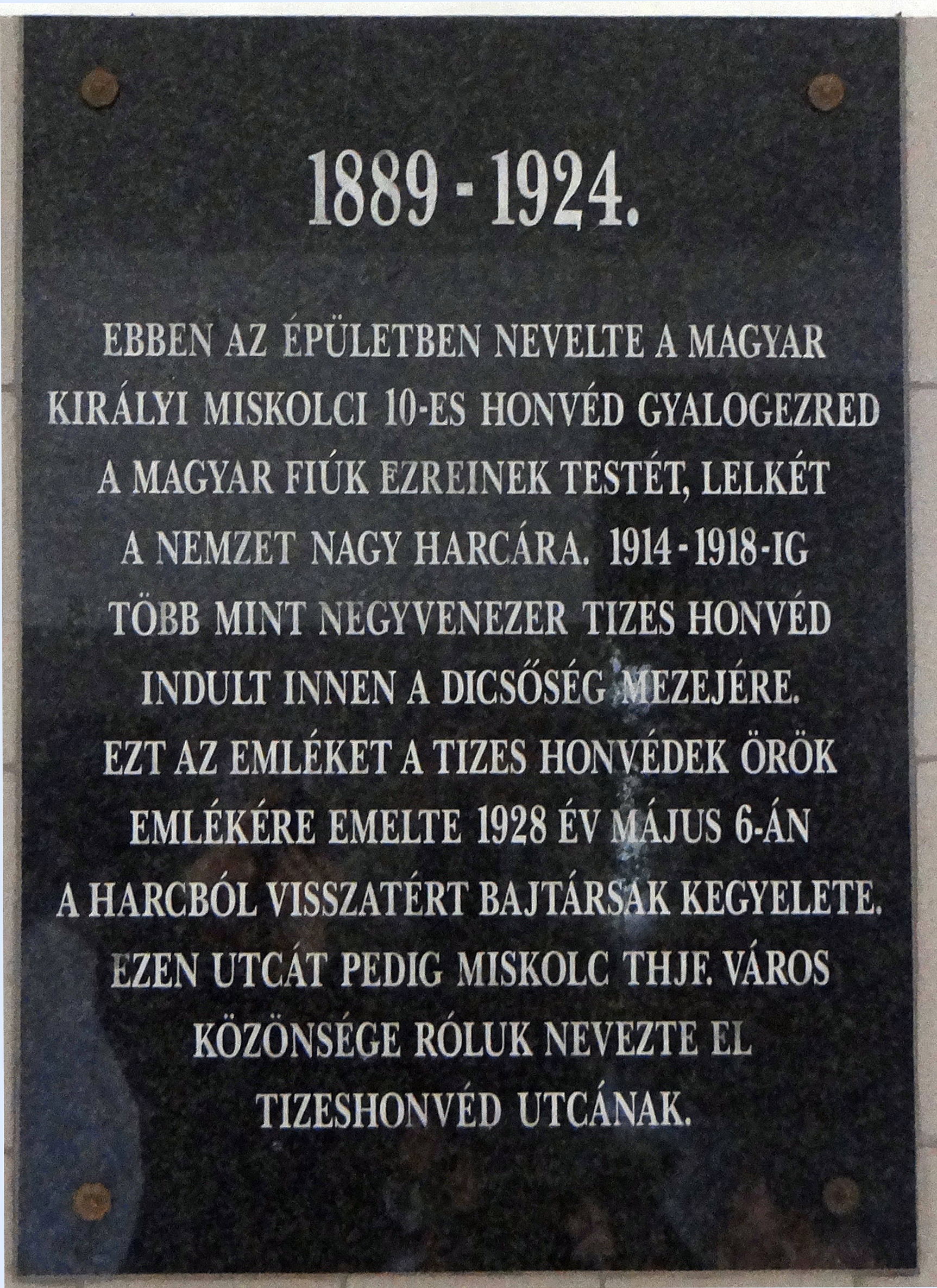 Tizes Honved Plaque Backup, Otto Herman Secondary School, Miskolc, Hungary